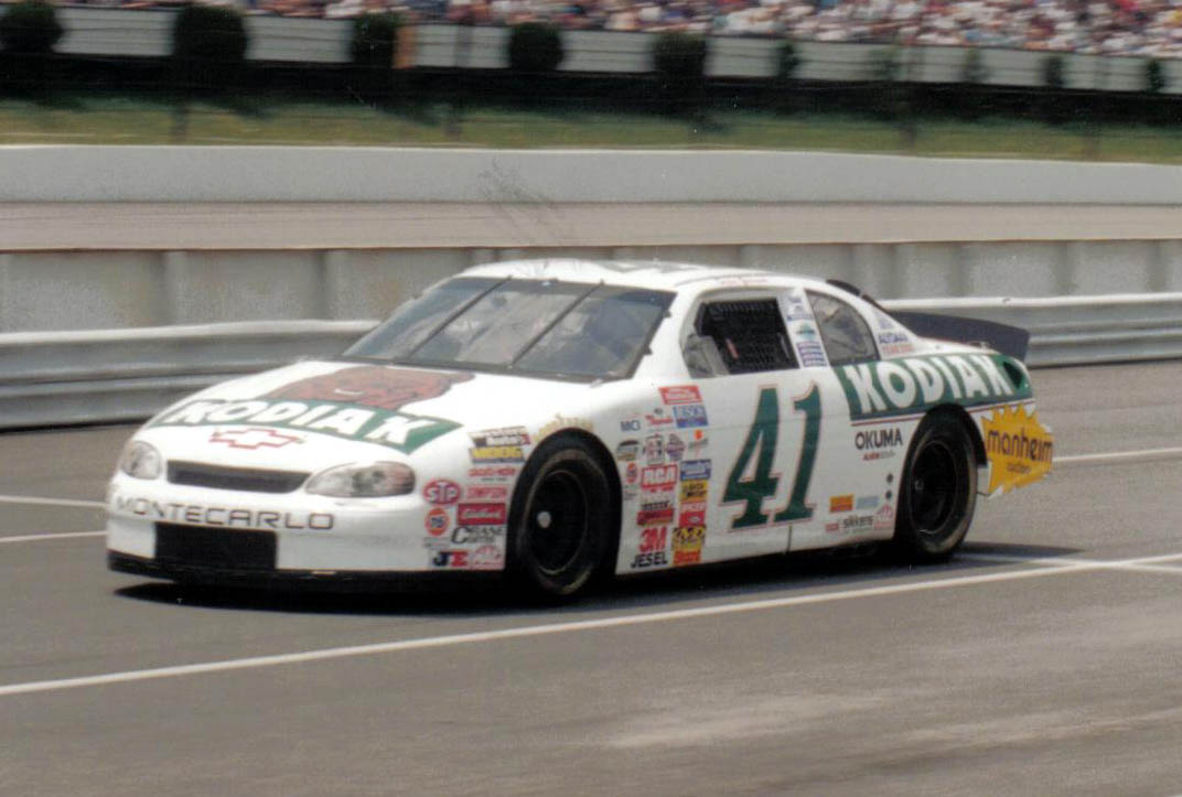 NASCAR driver Steve Grissom in the Hedrick #41 at Pocono in 1997.